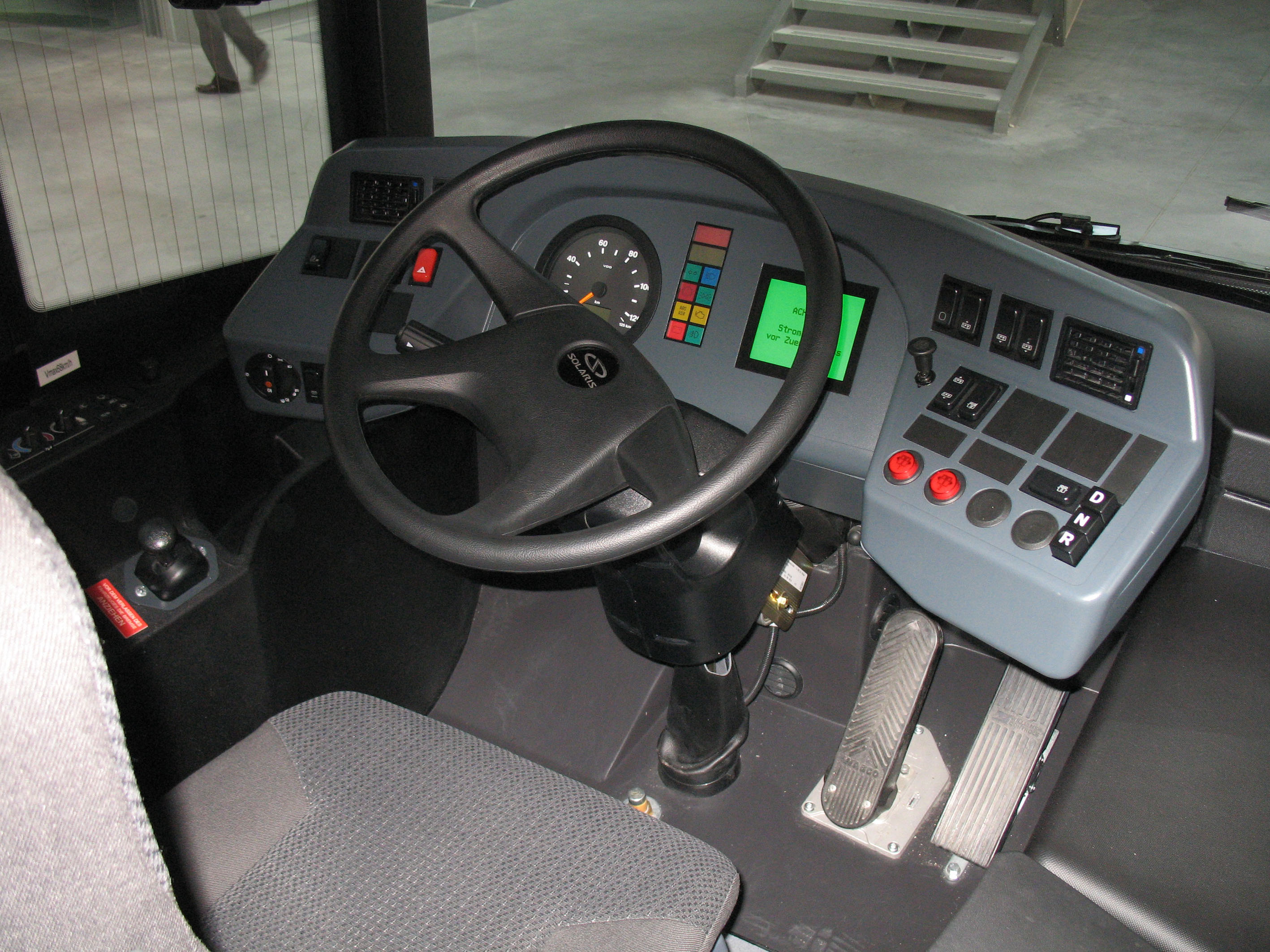 Solaris Urbino 18 Hybrid Vossloh Kiepe city bus cockpit in Kielce, Poland. Built 2010. Transexpo 2010.